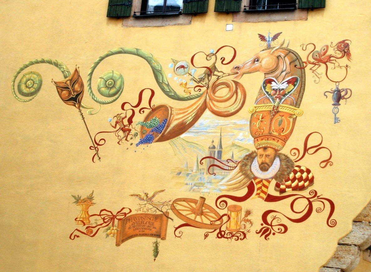 Wall paintings by Werner Holz in the historic center of Neustadt an der Weinstrasse (Ecke Klemmhof - Badstubengasse)